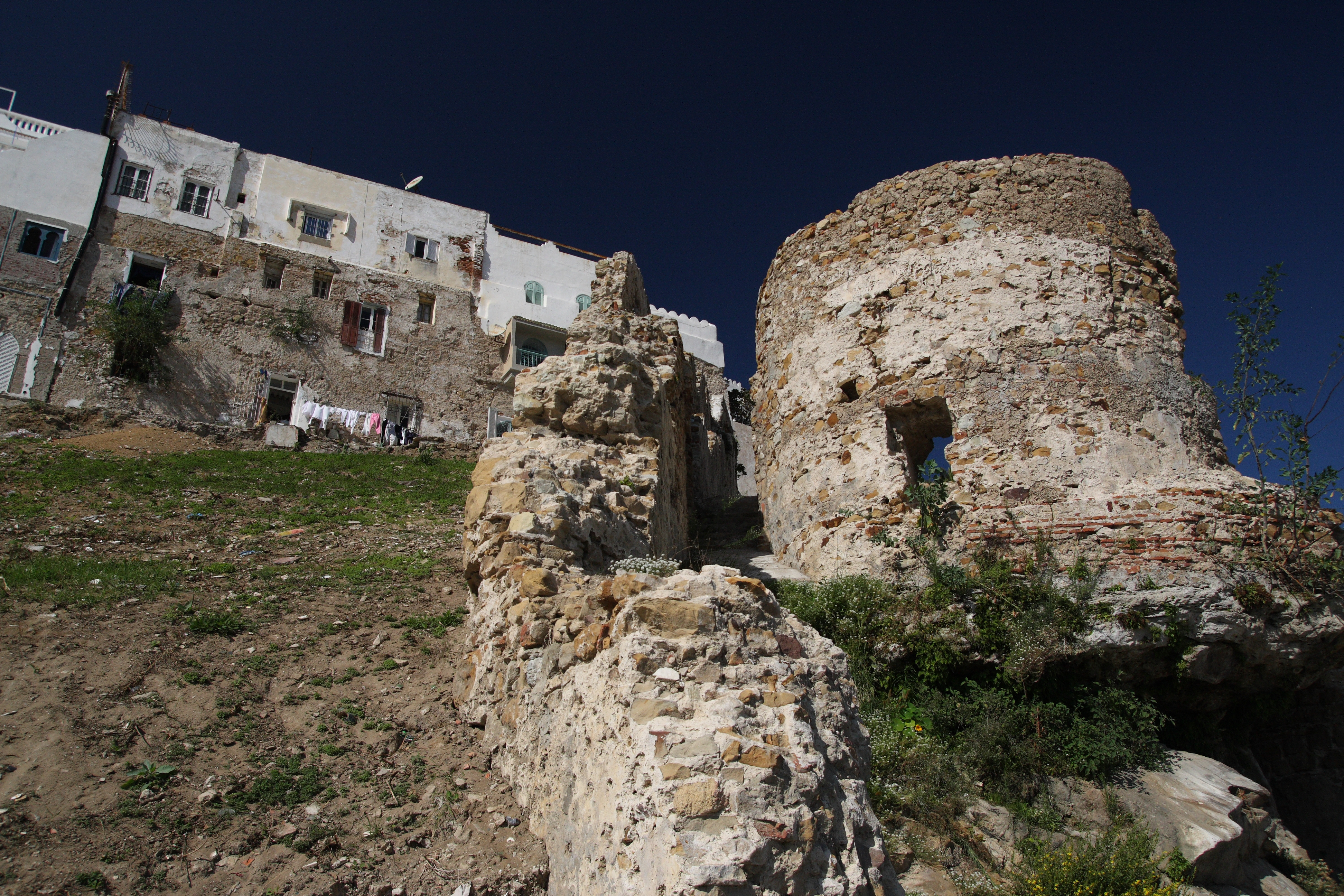 Tangier, Morocco